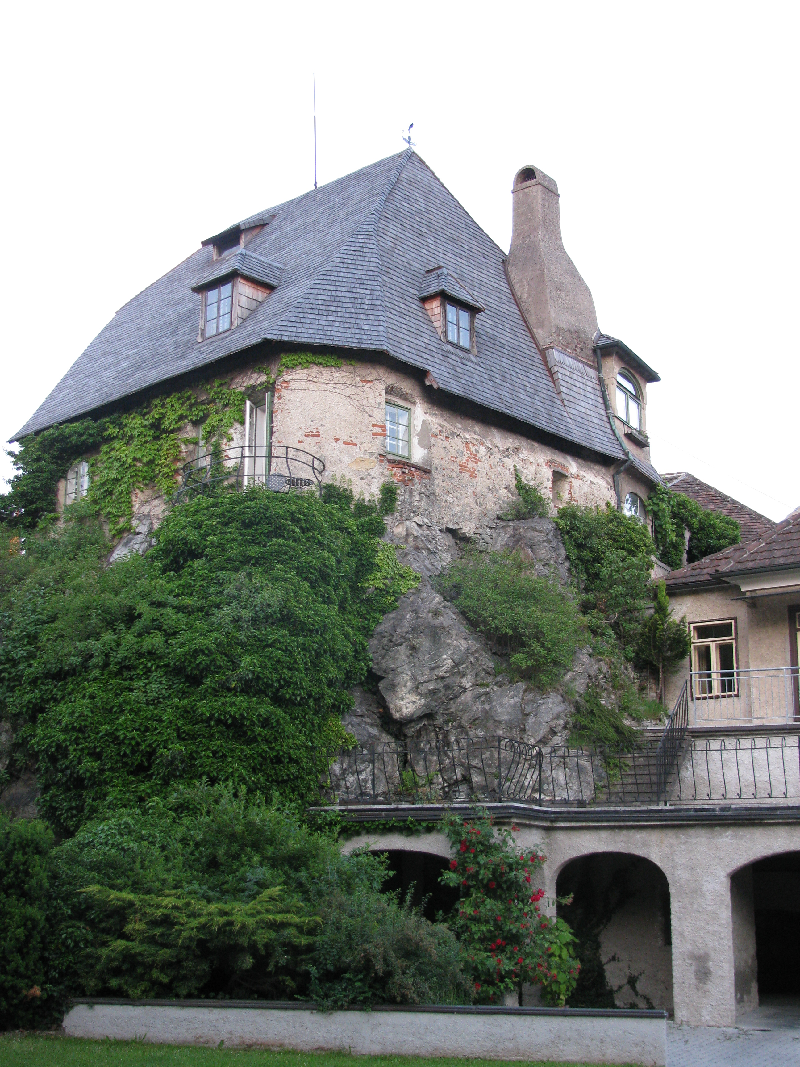 Haus auf dem Stein ("House on the Rock") in Melk, Lower Austria